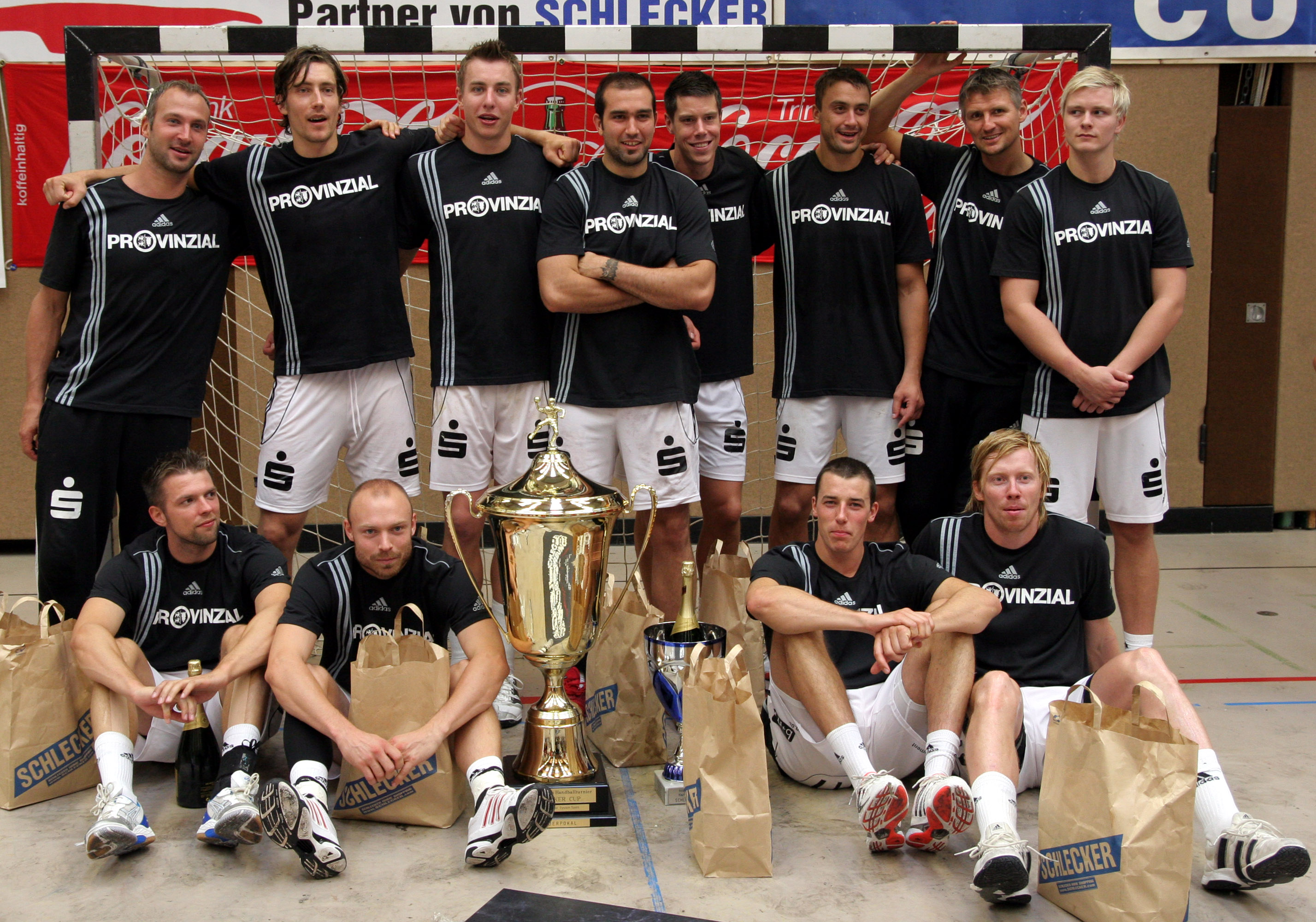 The team of THW Kiel, winning the Schlecker Cup 2009 in Ehingen (Germany)